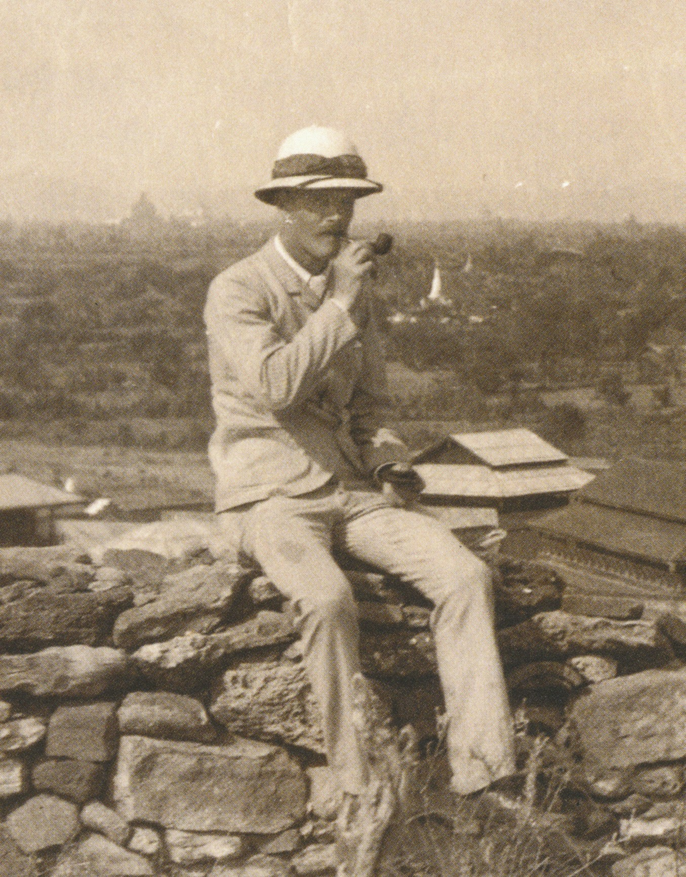 Self-portrait by Oertel made during his 1892-1893 journey in Burma, detail, after F.O. Oertel, A Tour in Burma in March and April 1892, Rangoon: Supt. Of Govt. Printing, Burma, 1893, plate 23.